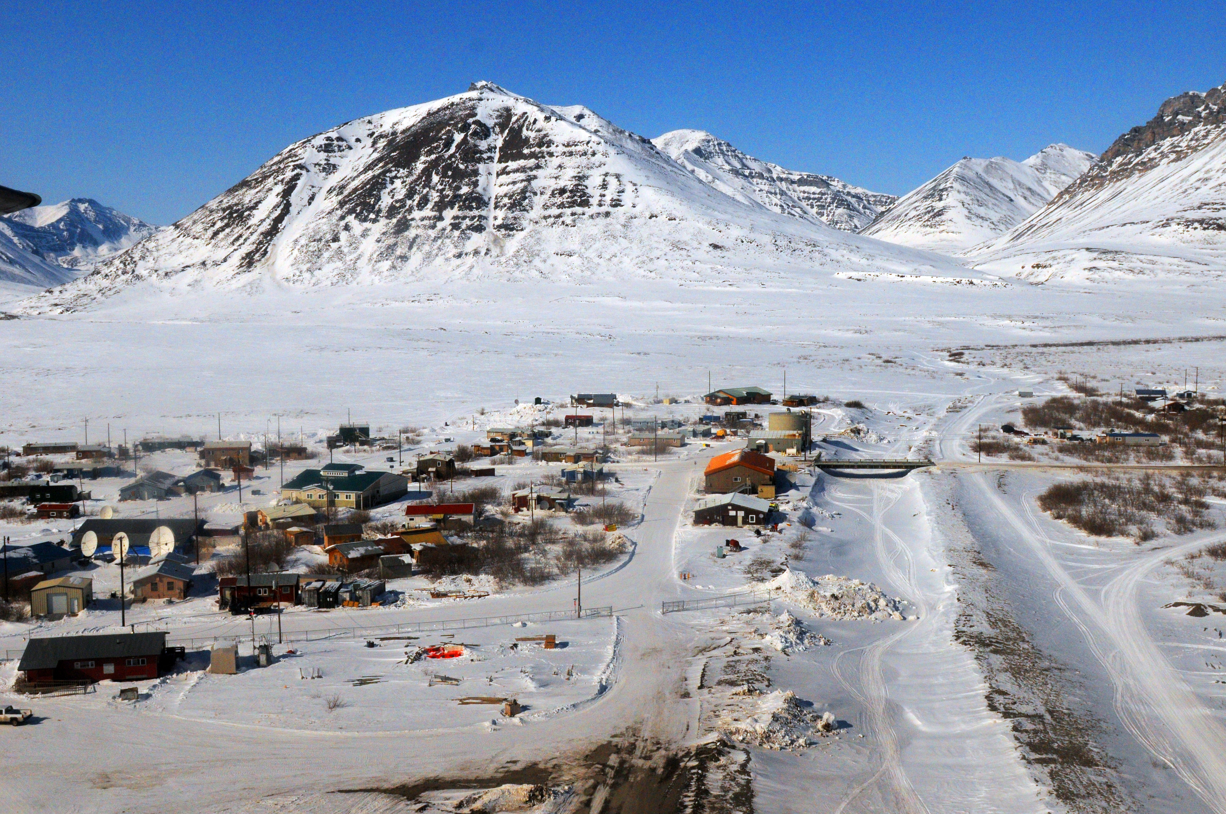 HIGH RECON – Flying above the small Alaskan village Anaktuvuk Pass, a pilot from A 1-207th Aviation Regiment, Alaska National Guard recons a safe landing zone. The Alaska National Guard flies supplies and personnel to some of the most remote regions in Alaska in support of Arctic Care 2011. (Army Photo by Lt. Col. Brent Campbell, 807th MDSC Public Affairs)